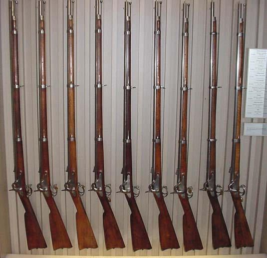 Contract Rifle-Muskets. The weapons in this exhibit are arranged from left to right and identified in this listing from top to bottom. U.S. Rifle-Musket Model 1861 Contract (Meriden) Percussion .58 SPAR1296 U.S. Rifle-Musket Model 1861 Contract (Hoard) Percussion .58 SPAR1127 U.S. Rifle-Musket Model 1861 Contract (Robinson) Percussion .58 SPAR1126 U.S. Rifle-Musket Model 1861 Contract (Mason) Percussion .58 SPAR1314 U.S. Rifle-Musket Model 1861 Contract (Schubarth) Percussion .58 SPAR1300 U.S. Rifle-Musket Model 1861 Contract (Savage) Percussion .58 SPAR1299 U.S. Rifle-Musket Model 1861 Contract (Whitney) Percussion .58 SPAR1135 U.S. Rifle-Musket Model 1861 Contract (Bridesburg) Percussion .58 SPAR1291 U.S. Rifle-Musket Model 1861 Contract (Suhl) Percussion .58 SPAR5513